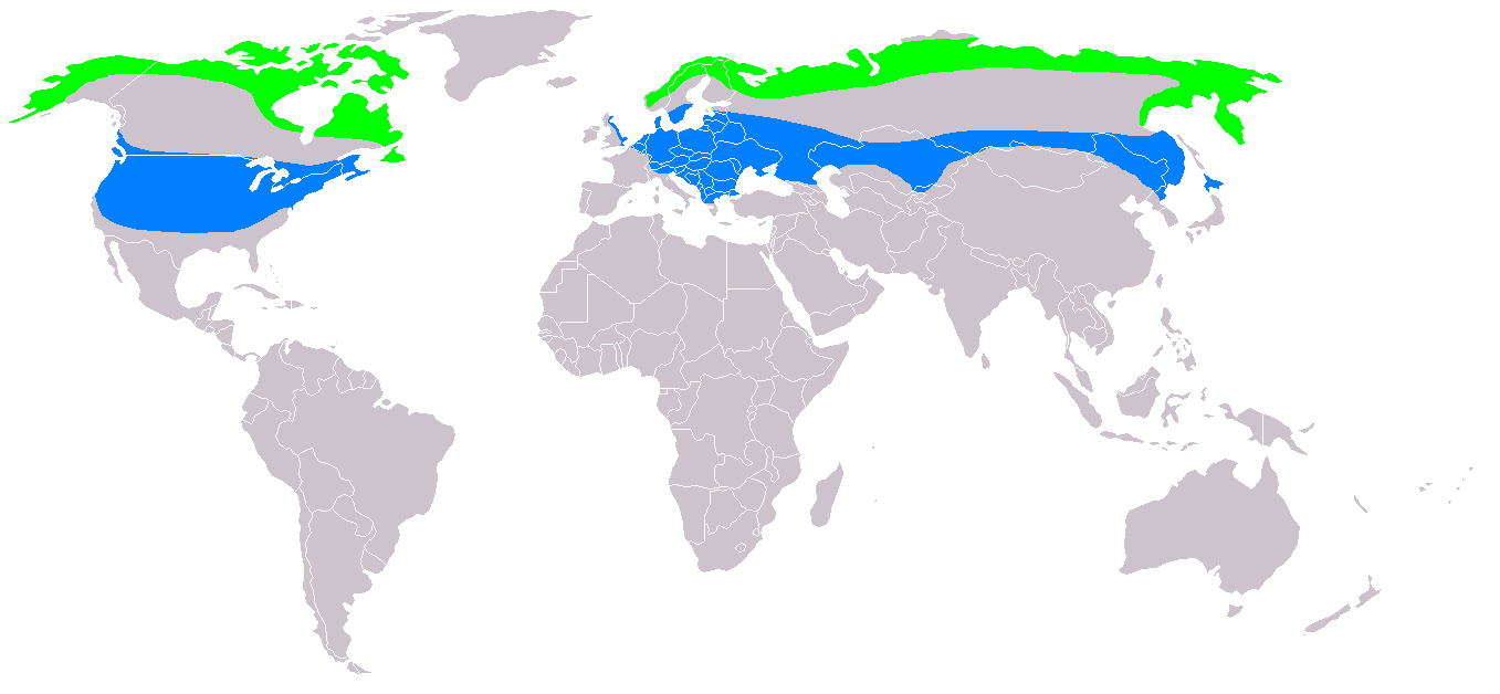 Distribution of Buteo lagopus nesting area resident all year wintering area